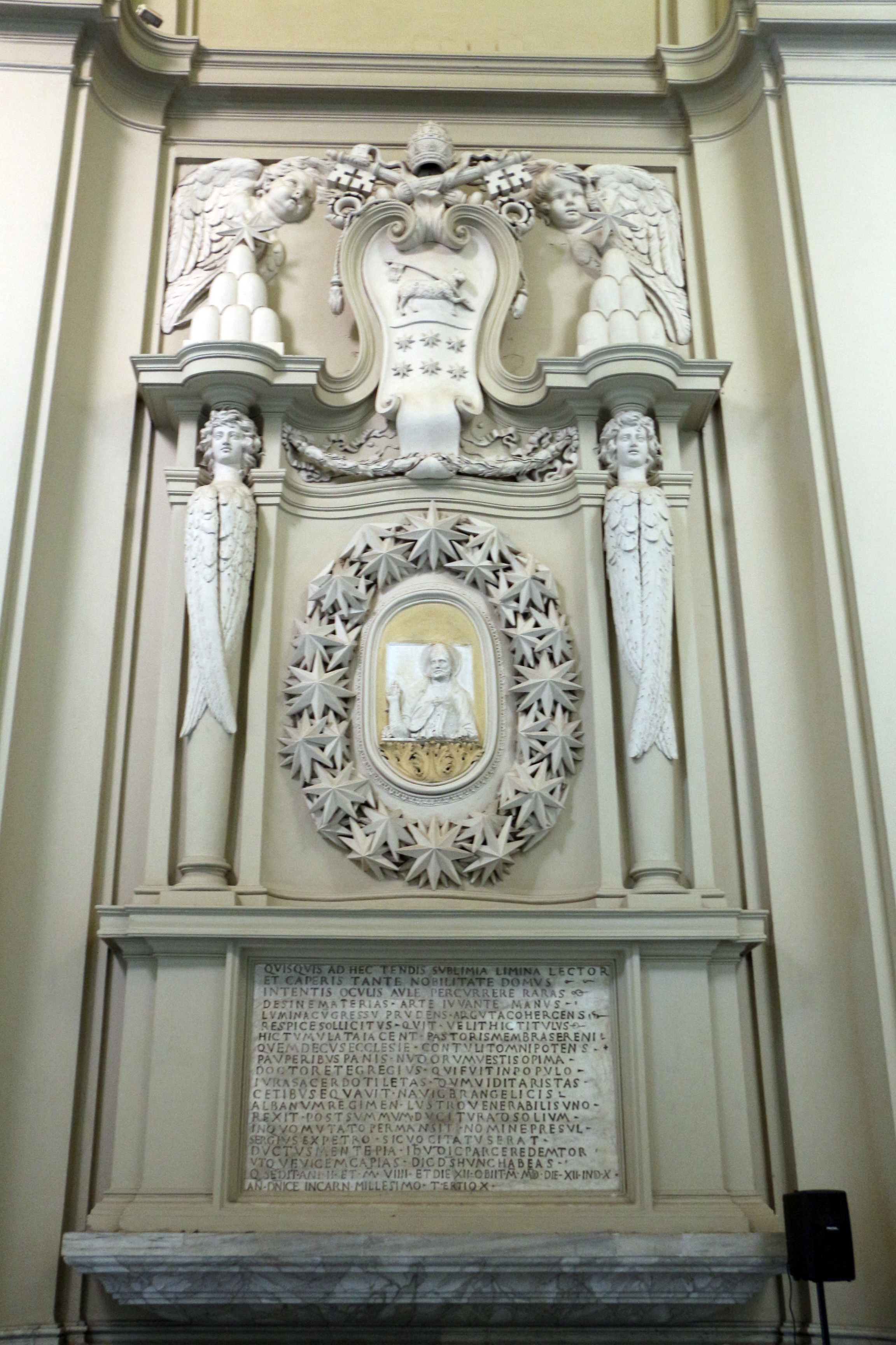 San Giovanni in Laterano (Rome) - Interior